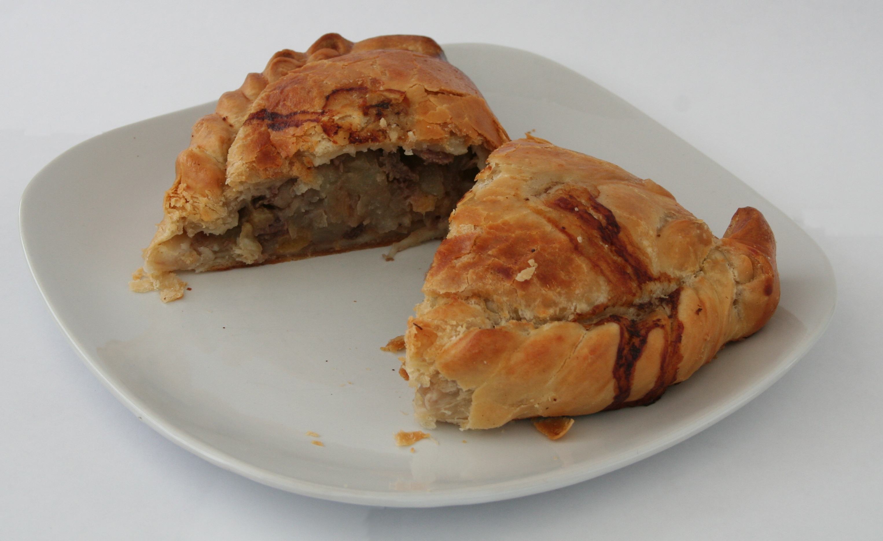 A Cornish pasty made by Warrens cut in half. The filling is beef steak, potato, turnip and onion.